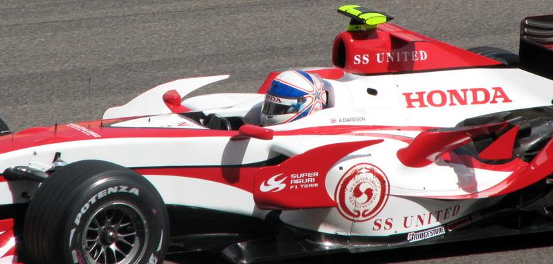 Anthony Davidson driving for Super Aguri at the 2007 Bahrain Grand Prix.